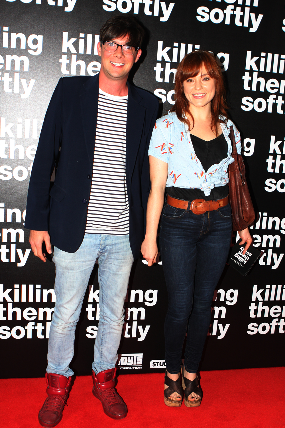 Ella Scott Lynch & Toby Schmitz at Killing Then Softly movie premiere, Dendy Opera Quays 'Killing Them Softly' enjoyed its Sydney, Australia movie premiere at Dendy Opera Quays this evening. Writer/ director Andrew Dominik (Chopper, The Assassination of Jesse James by the Coward Robert Ford) and star of the film Ben Mendelsohn (The Dark Knight Rises, Animal Kingdom) will attend the Australian premiere of KILLING THEM SOFTLY on Monday 24 September. Other guests attending include Bella Heathcote, Aaron Glenane, Brenna Harding, Elizabeth Blackmore, Felix Willamson, Gillian Armstrong, James Frecheville, John Jarratt Khan Chittenden, Krew Boylan, Leanna Walsman, Mary Coustas, Matthew Nable, Peter Phelps, Sacha Horler, Samara Weaving, Sarah Snook, Sean Keenan and Toby Schmitz. Adapted from George V. Higgins novel and set in New Orleans, Killing Them Softly follows professional enforcer, Jackie Cogan (Pitt), who investigates a heist that occurs during a high stakes, mob-protected poker game. Plot: Jackie Cogan is a professional enforcer who investigates a heist that went down during a mob-protected poker game. Director: Andrew Dominik Writers: Andrew Dominik (screenplay), George V. Higgins (novel) Stars: Brad Pitt, Ray Liotta and Richard Jenkins IN CINEMAS 11 OCTOBER 2012 Websites Killing Them Softly Dendy Cinemas Eva Rinaldi Photography Eva Rinaldi Photography Flickr Music News Australia Nixco